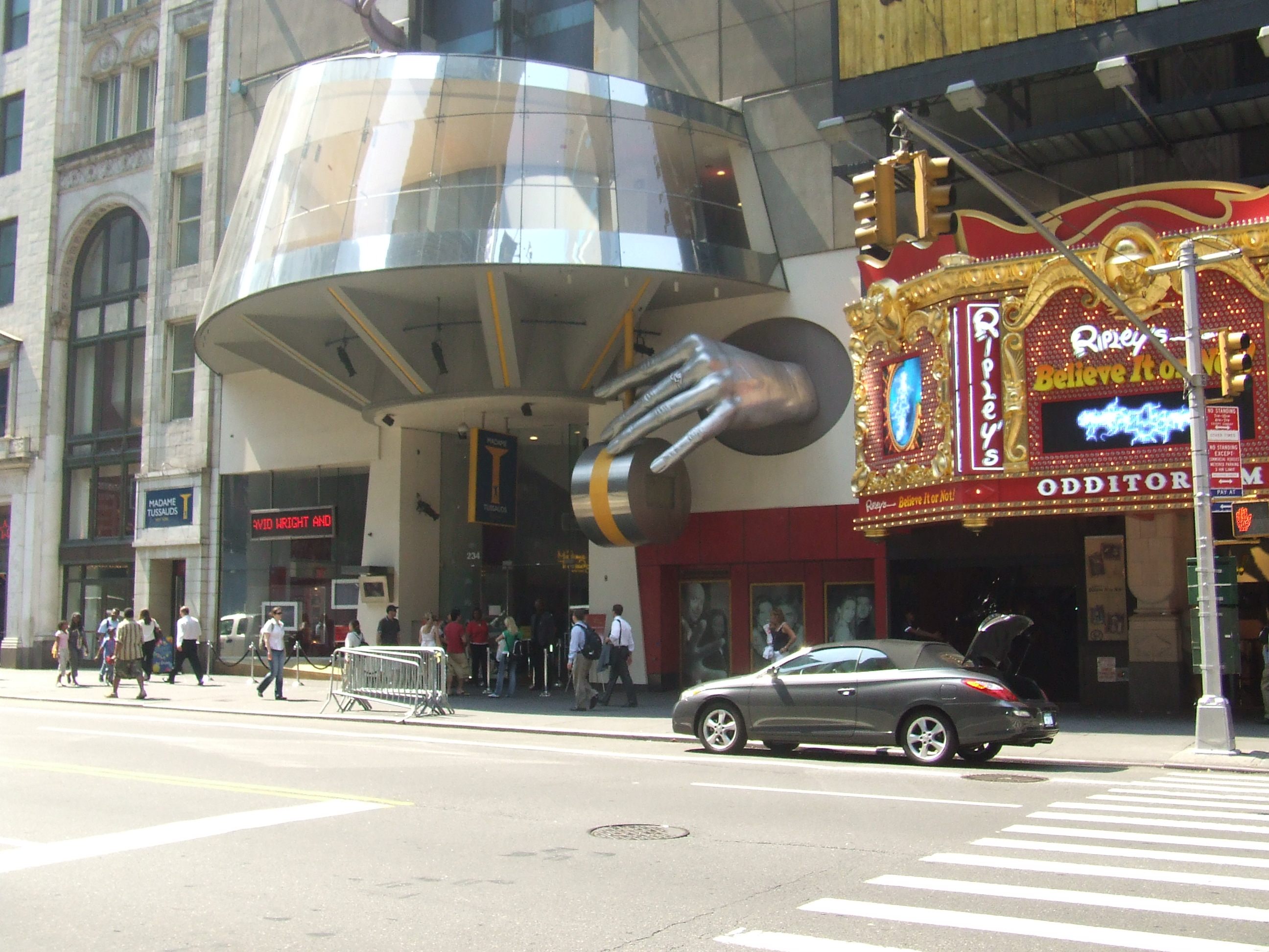 Looking south across 42nd Street at Madame_Tussauds & Ripley